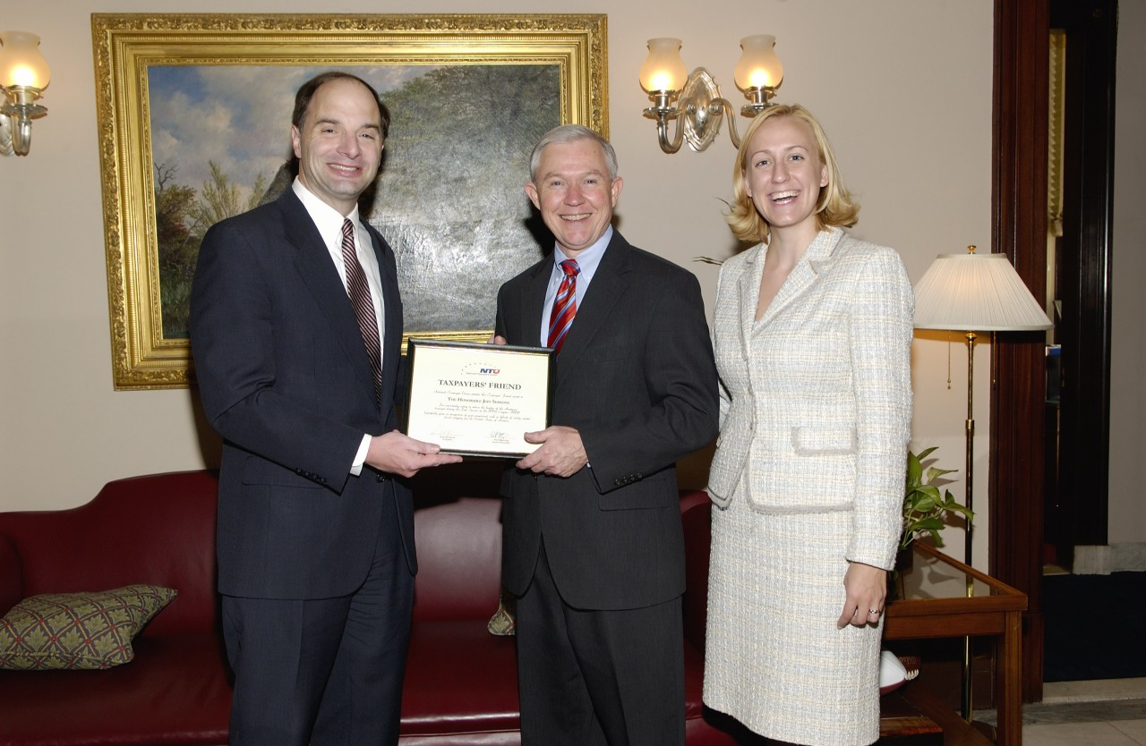 Sen. Jeff Sessions is presented with the National Taxpayers Union (NTU) “Taxpayers' Friend” Award for his votes on legislation affecting taxes, spending and debt in 2005. The award is presented by NTU's president, John Berthoud, and Government Affairs Manager, Kristina Rasmussen. (4/27/06)